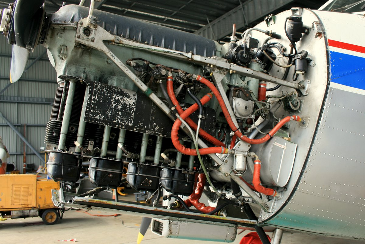 A de Havilland Gipsy Major engine, mounted on the nose of a de Havilland Australia DHA-3 Drover undergoing maintenance. The exhaust system, induction manifold and spark plugs have been removed.